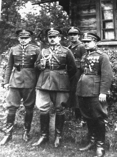 Soldiers of Border Protection Corps (Poland)